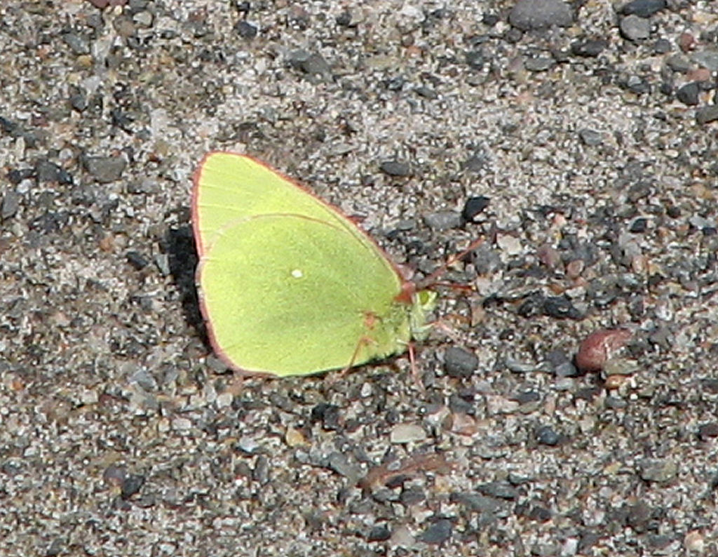 Palaeno Sulphur (Colias palaeno) taken near Coppermine River, Nunavut, Canada